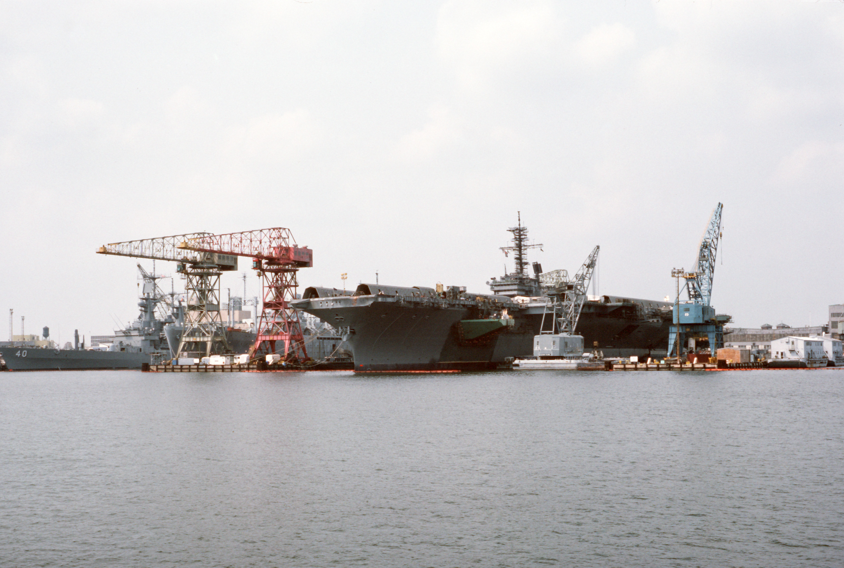 A port bow view of the aircraft carrier USS AMERICA CV 66) undergoing overhaul and modifications at the Norfolk Navy Shipyard. The nuclear-powered cruiser USS MISSISSIPPI (CGN 40) is to the left. Location: ELIZABETH RIVER, PORTSMOUTH, VIRGINIA (VA) UNITED STATES OF AMERICA (USA)